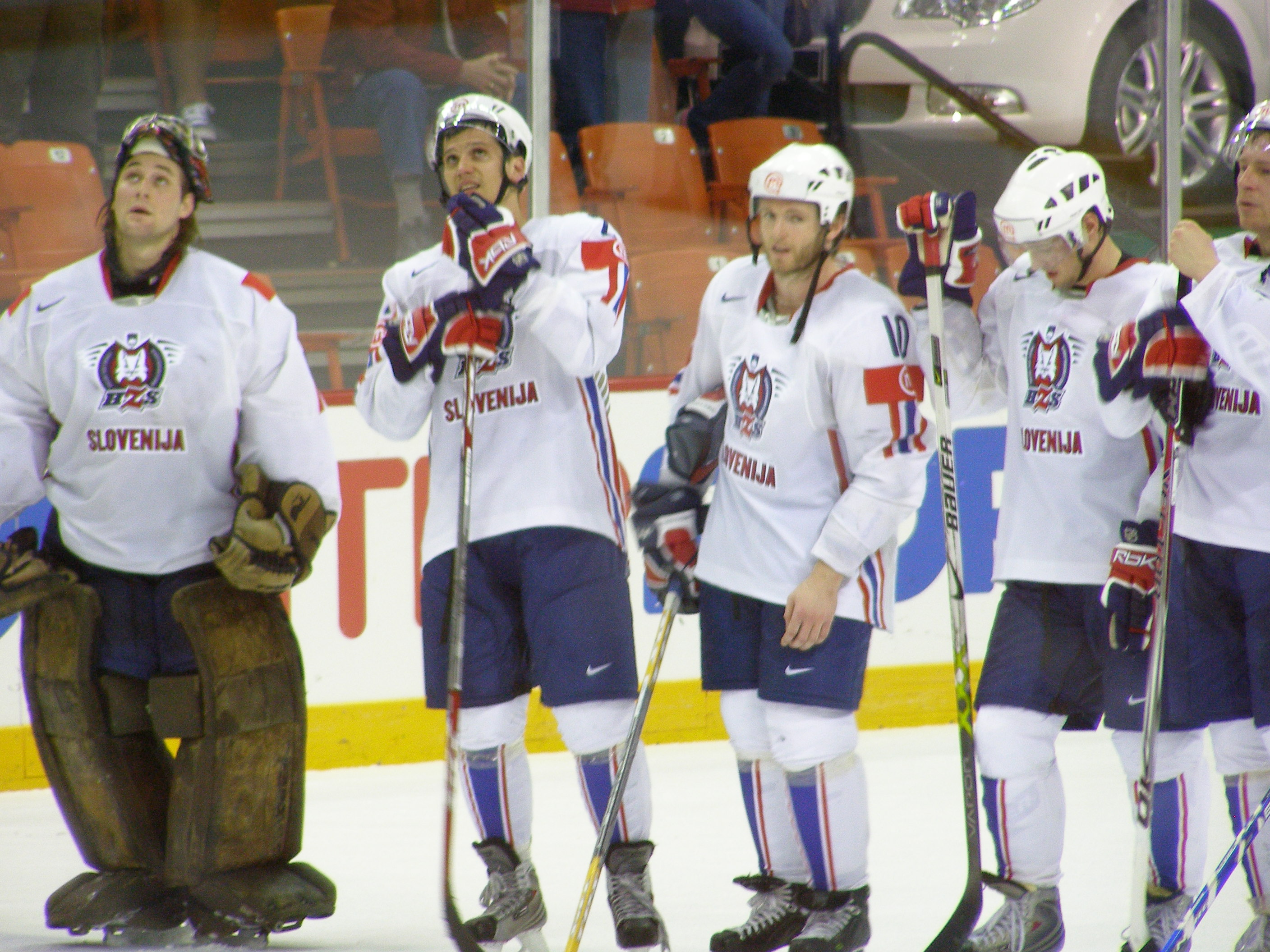 Slovenia VS USA (IIHF World Hockey Championship in Halifax NS, May 4 2008)